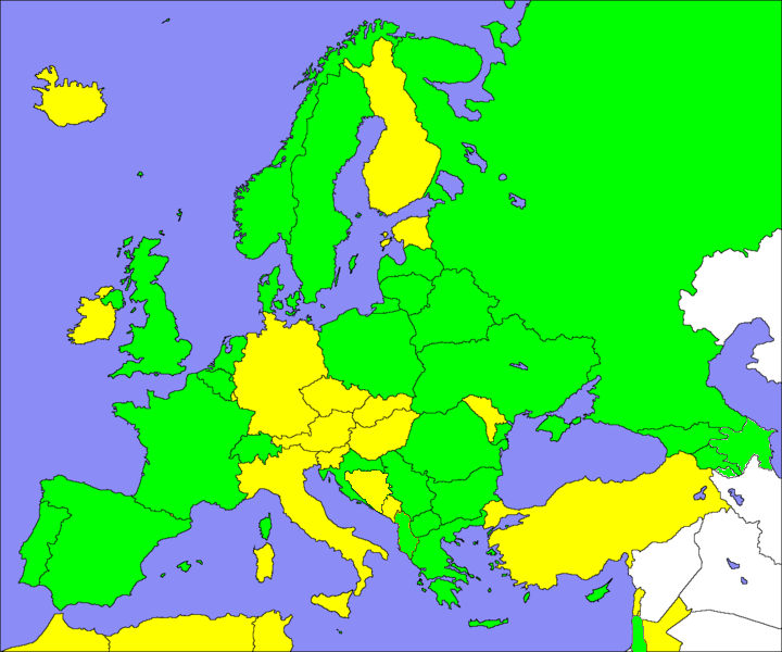 Map showing all countries ever to have participated in the Junior Eurovision Song Contest; and those eligible to do so. Green - Countries which have participated in the Contest at least once. Yellow - Countries which are eligible to participate, but have not (yet) done so.